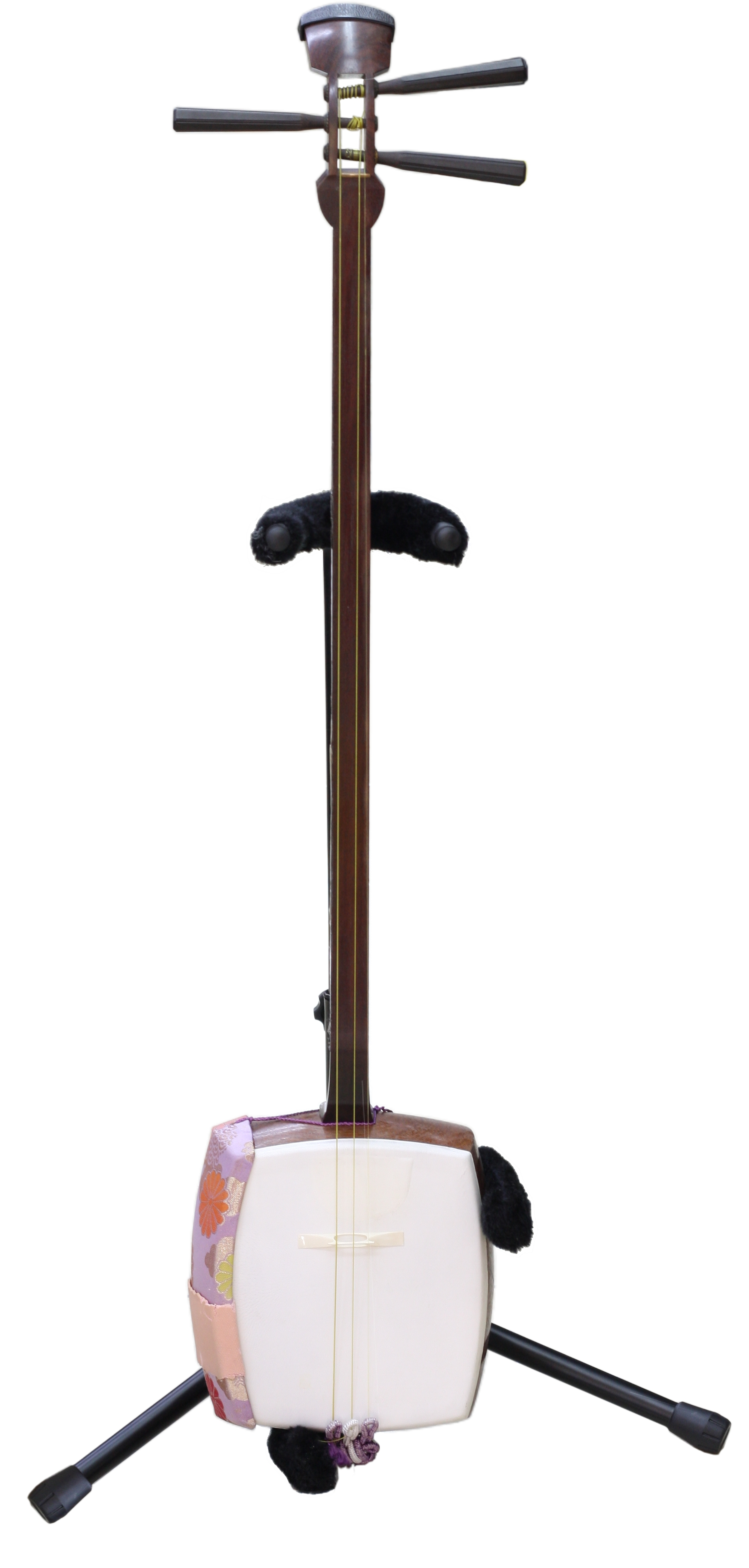 There is a Japanese proverb which goes "When the wind blows barrel makers get rich," which means that when something happens someone is going to make money out of that occurrence. But why should wind make barrel-makers rich? When the wind blows, dust will be blown into people's eyes. If dust is blown into people's eyes, some people will go blind. The traditional employment for blind people in Japan was itinerant shamisen-playing story-tellers. The blind people would therefore be predicted to purchase shamisen. The skin of the shamisen is made of dog or more often cat. So if the number of blind people increase, then cats will be killed for their skin. If cats are killed then there will be more mice. And if there are more mice, people will need to make sure that their rice is kept in barrels. So they will order barrels. And barrel makers will get rich. This photo is for my textbook.